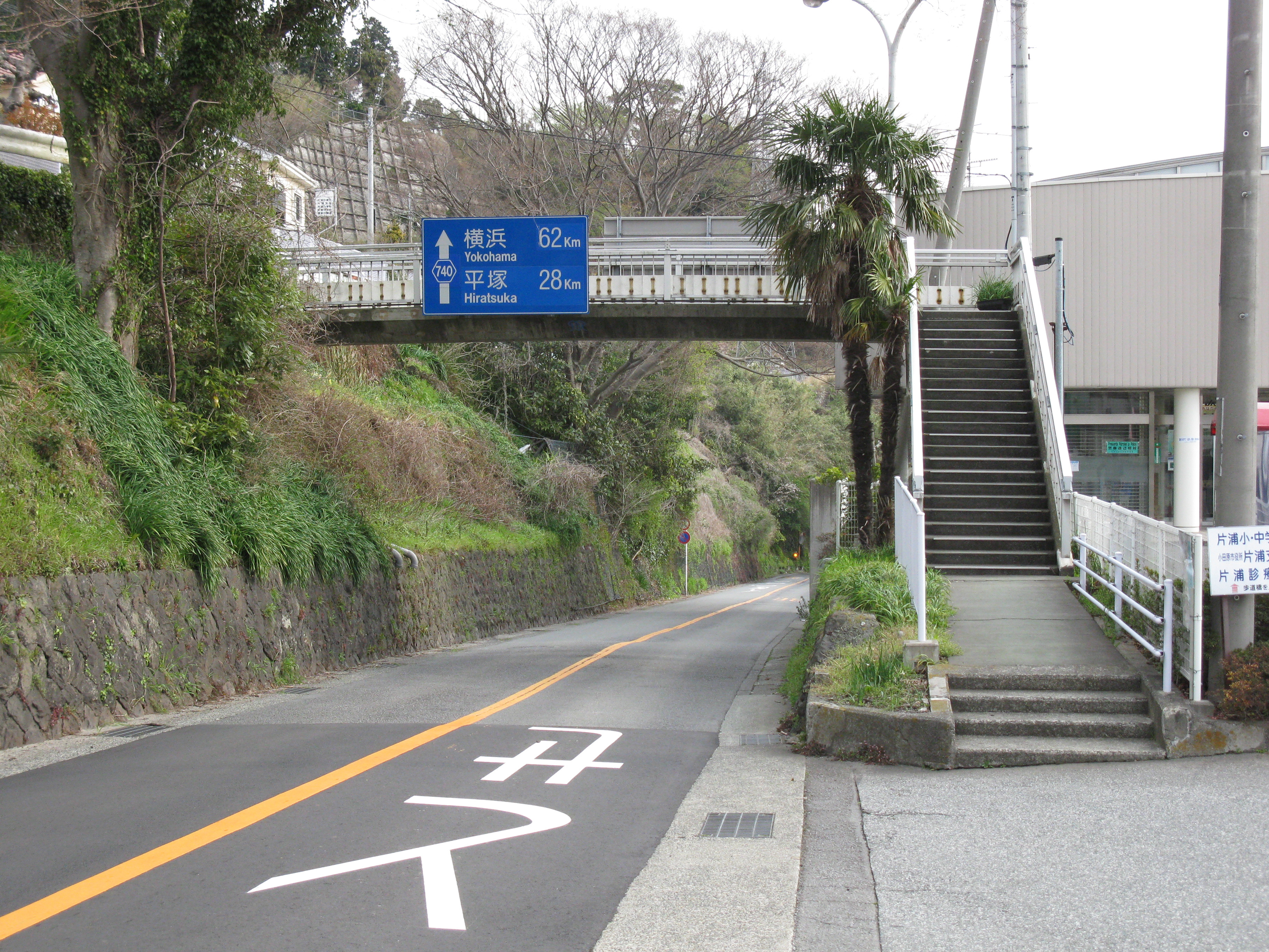 Kanagawa prefectural roads no.740 (near Nebukawa Station)